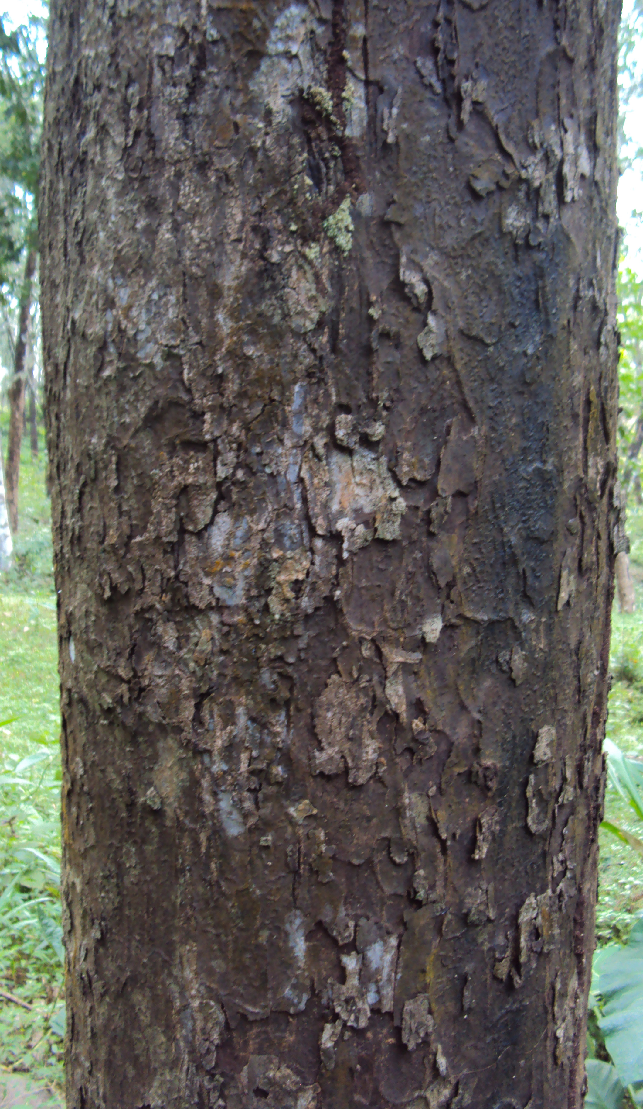 Cashew nut tree bark